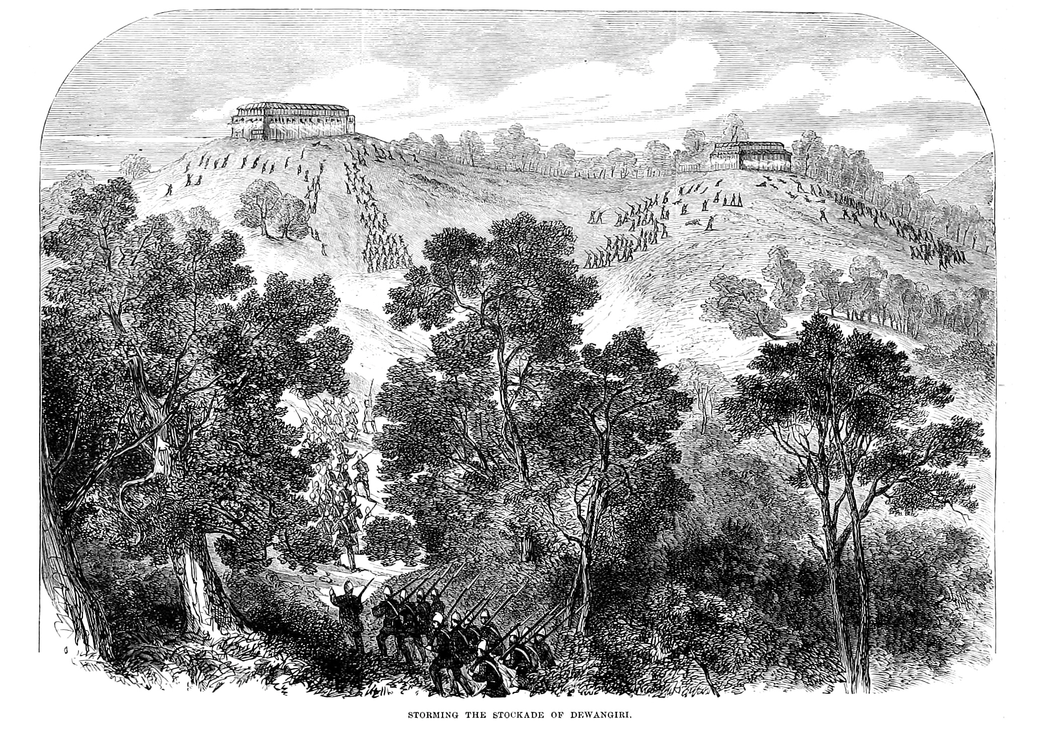 Joseph Paxton